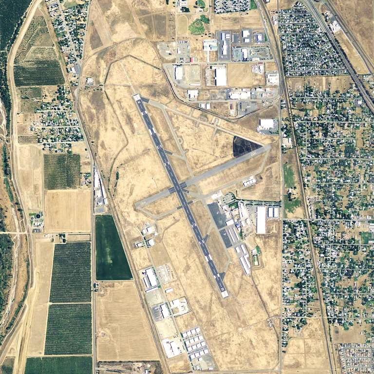 USGS digital orthophoto of Yuba County Airport in California